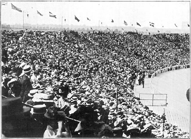 White City Stadium in July 24 1908